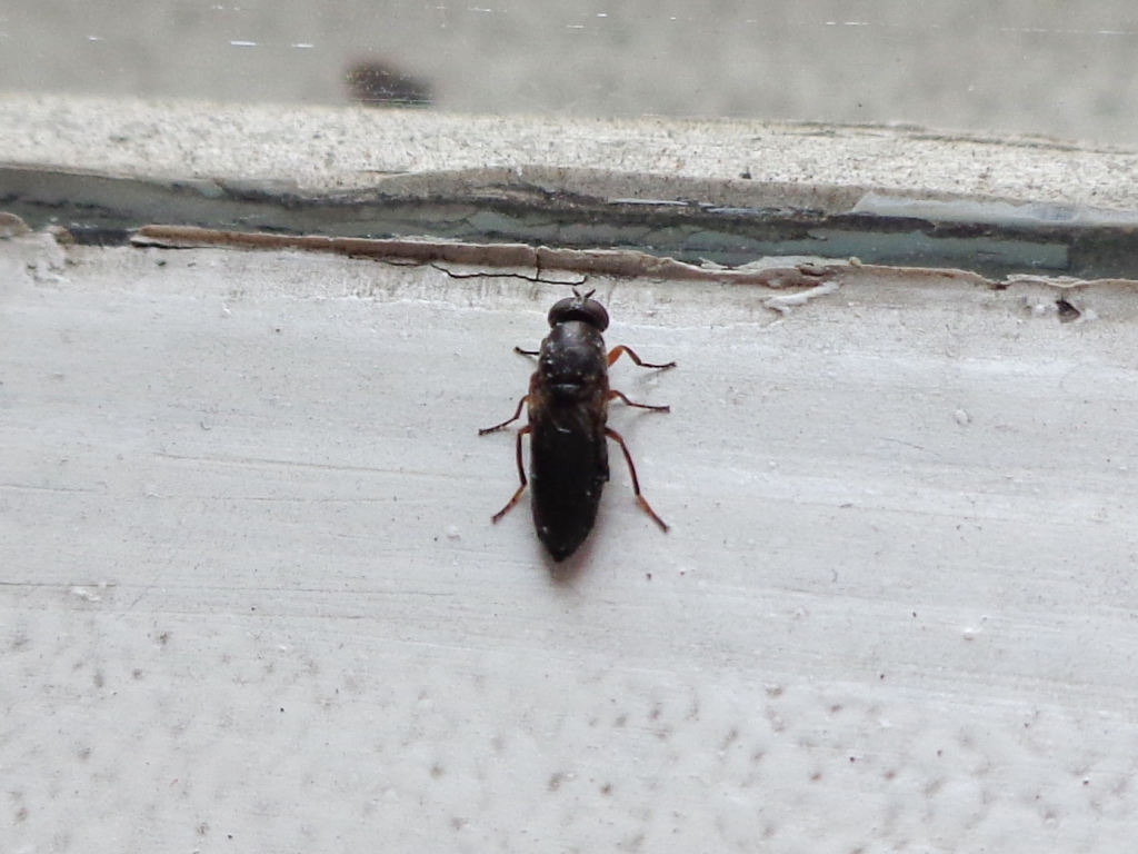 Scenopinus fenestralis. Found in Riga town, Latvia